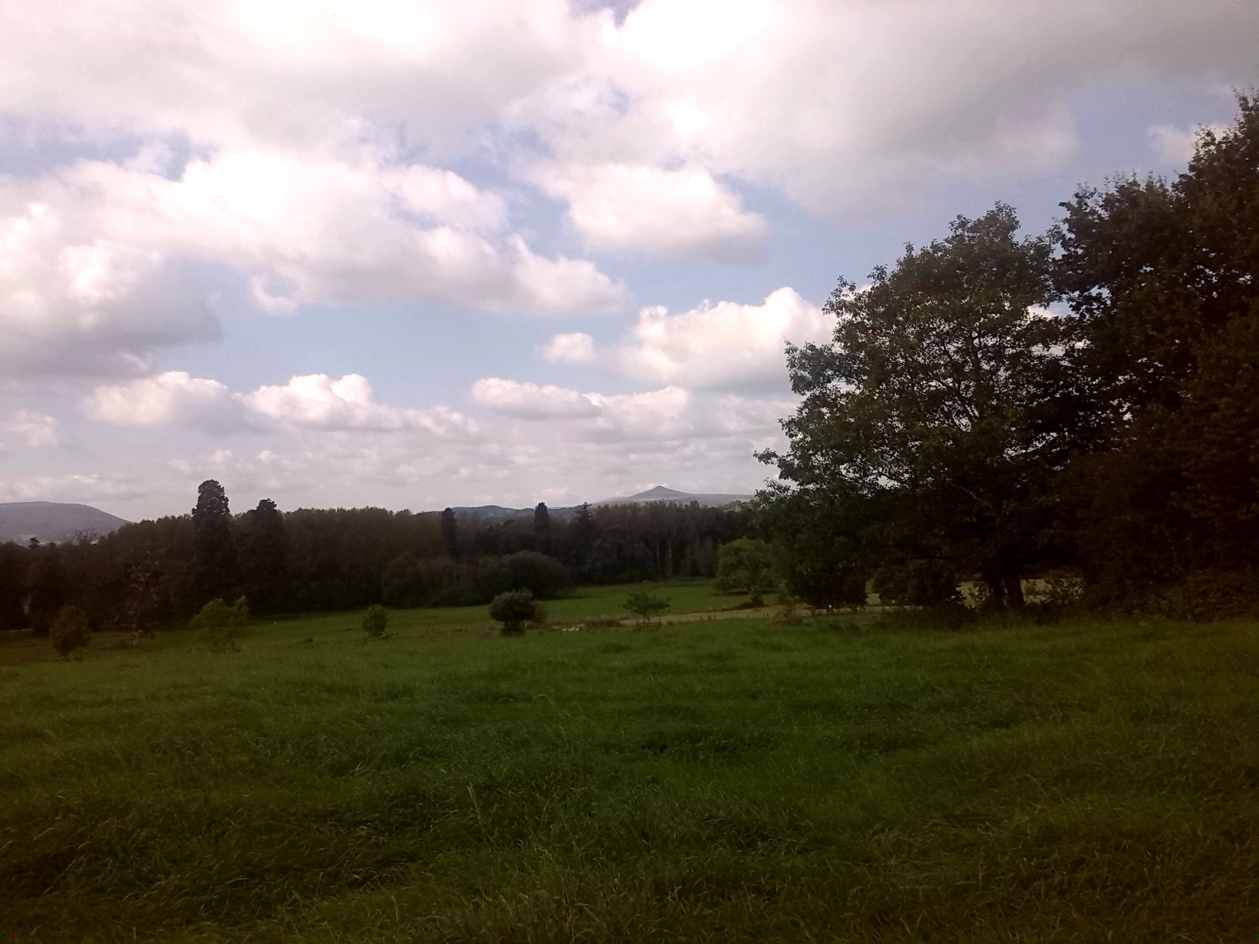 Photo of fields surrounding Llanarth estate taken by ThePhantasos.